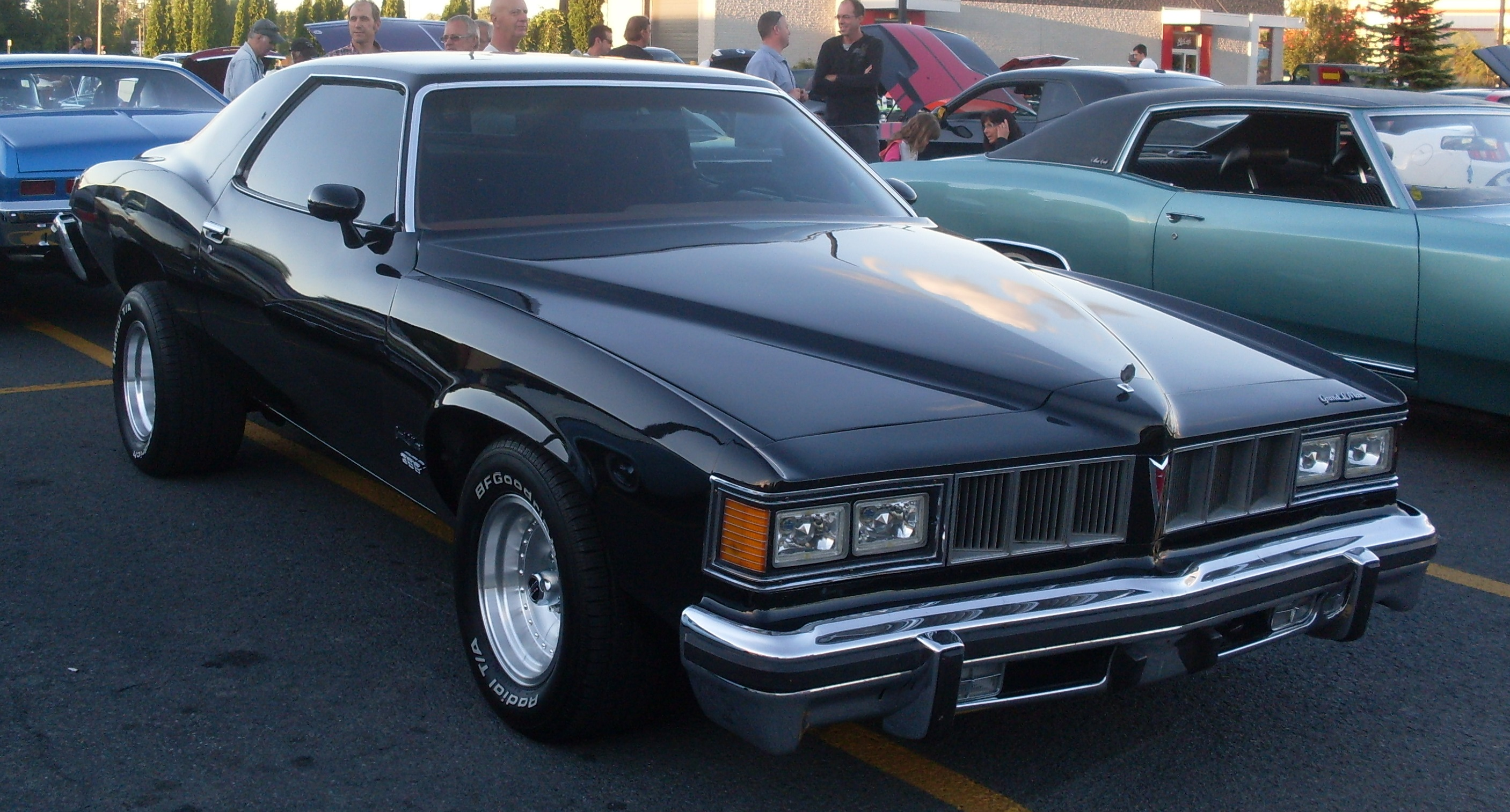 1976 Pontiac Grand LeMans photographed in St. Constant, Quebec, Canada at Auto classique St-Constant 2013.